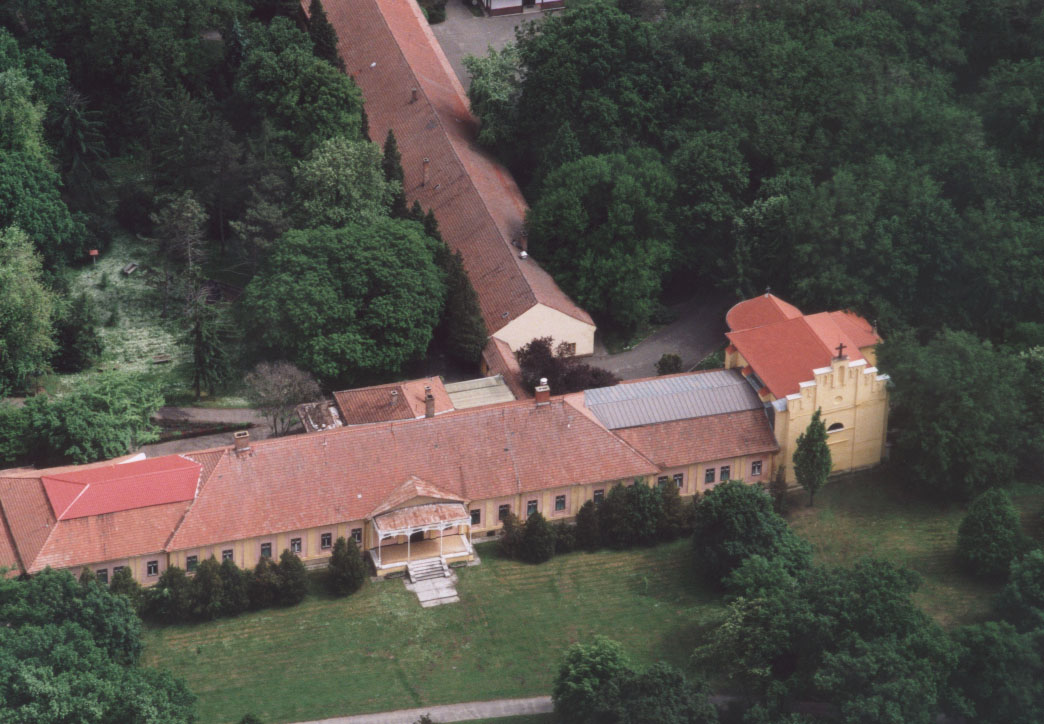 Palace - Kétegyháza - Hungary - Europe (Andrássy-Almásy Mansion) This is a photo of a monument in Hungary. Identifier: 2492